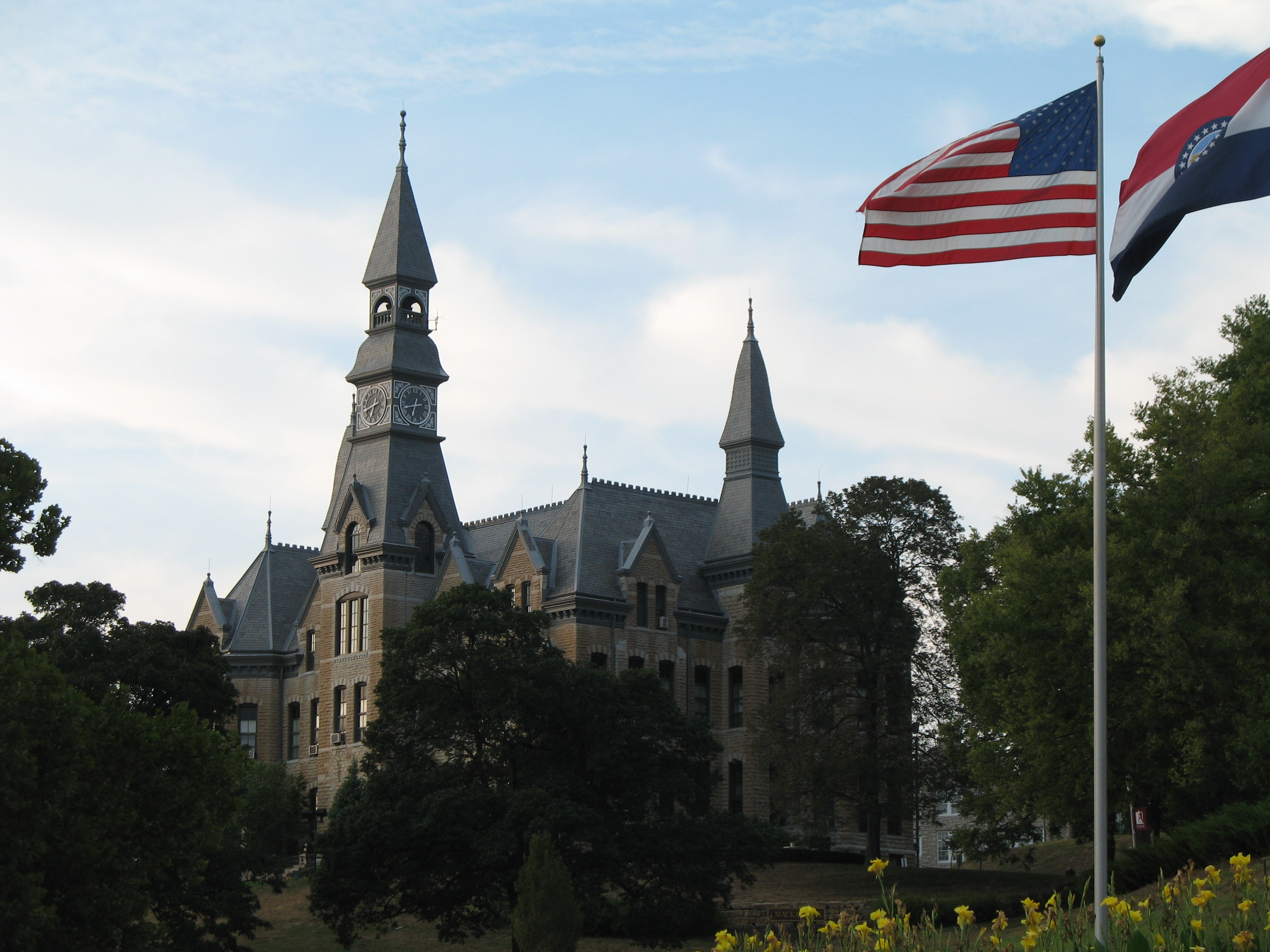 McKay Hall at Park University in Parkville Photo by poster in September 2007. Listed on the NRHP in 1979